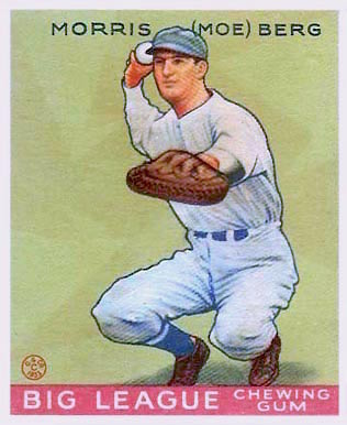 1933 Goudey baseball card of Morris "Moe" Berg of the Washington Senators #158. PD-not-renewed